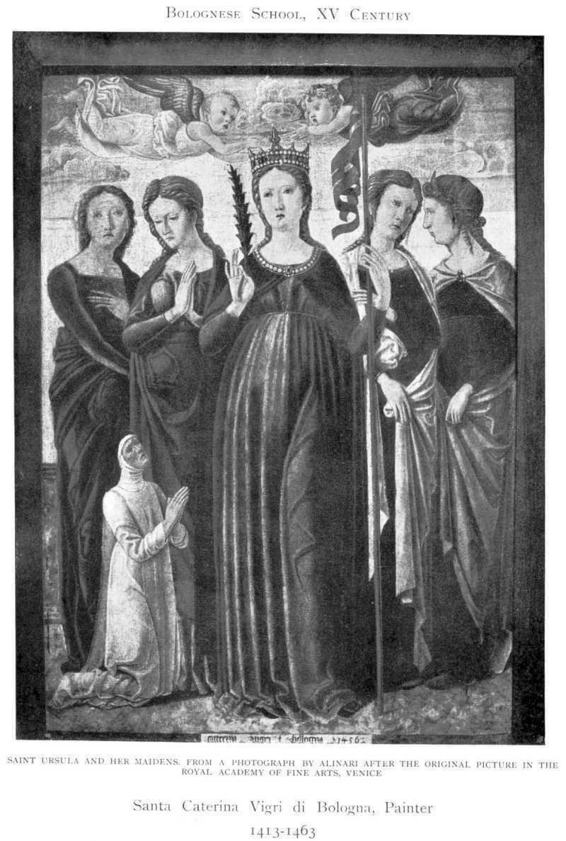 Saint Usula and her maidens, print on page 33 of Women painters of the world, from the time of Caterina Vigri, 1413-1463, to Rosa Bonheur and the present day, by Walter Shaw Sparrow, The Art and Life Library, Hodder & Stoughton, 27 Paternoster Row, London